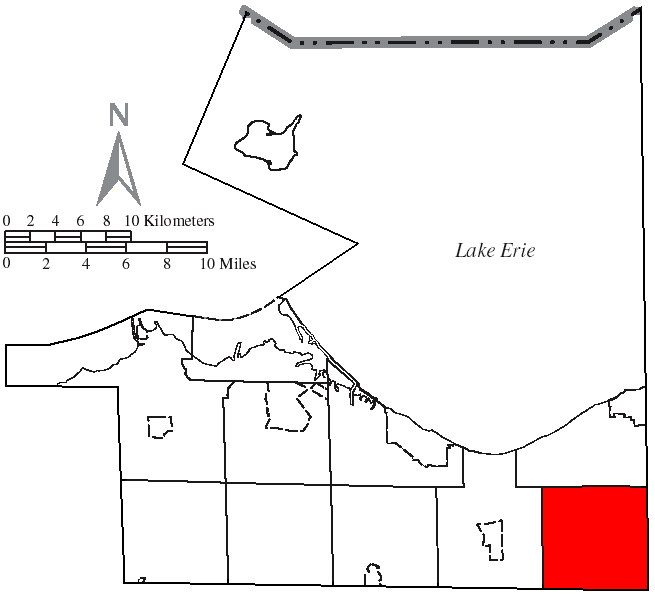 Made by the US Census and modified by myself